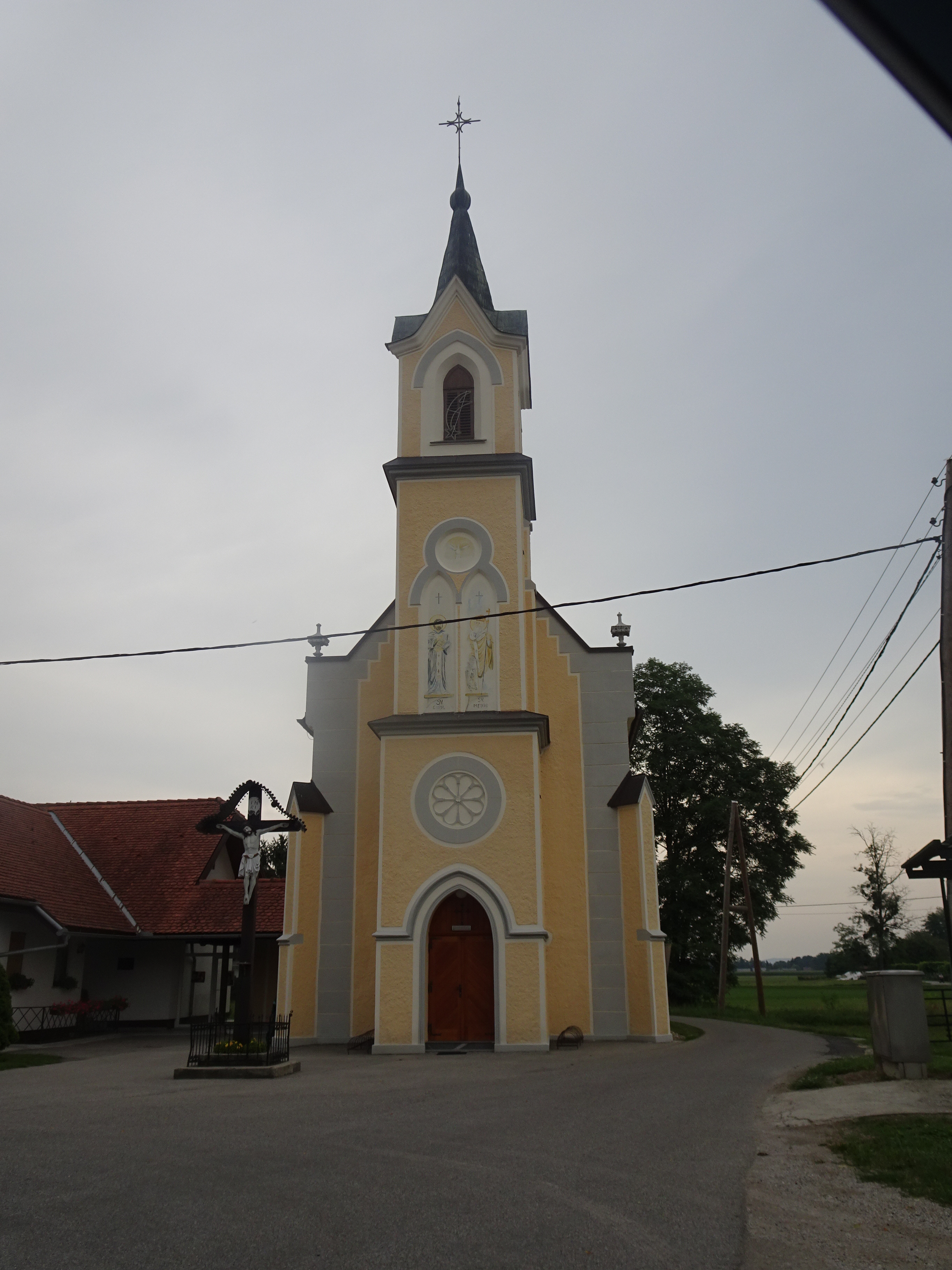 Sela, Videm Municipality, Slovenia